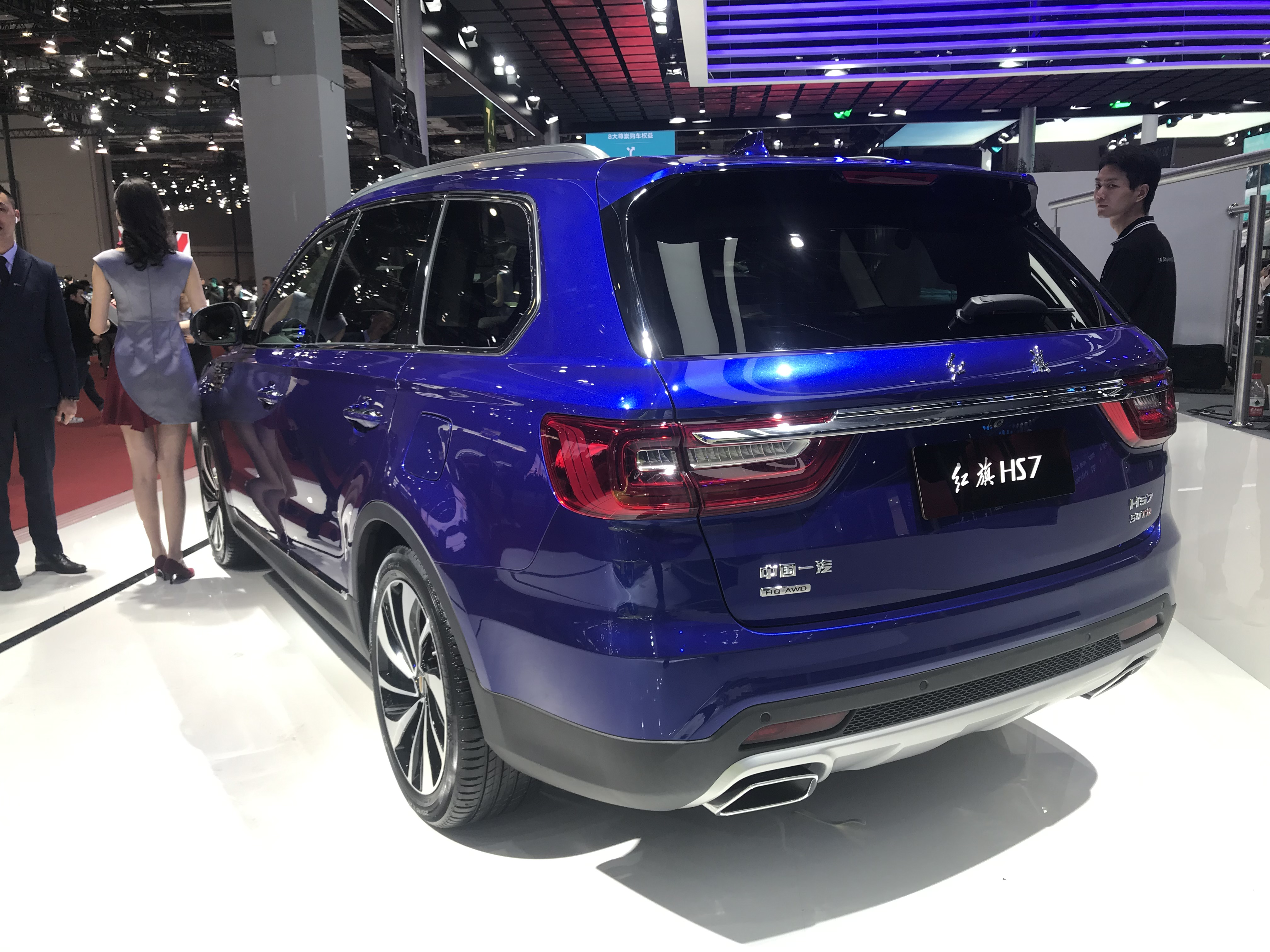 Hongqi HS7 rear